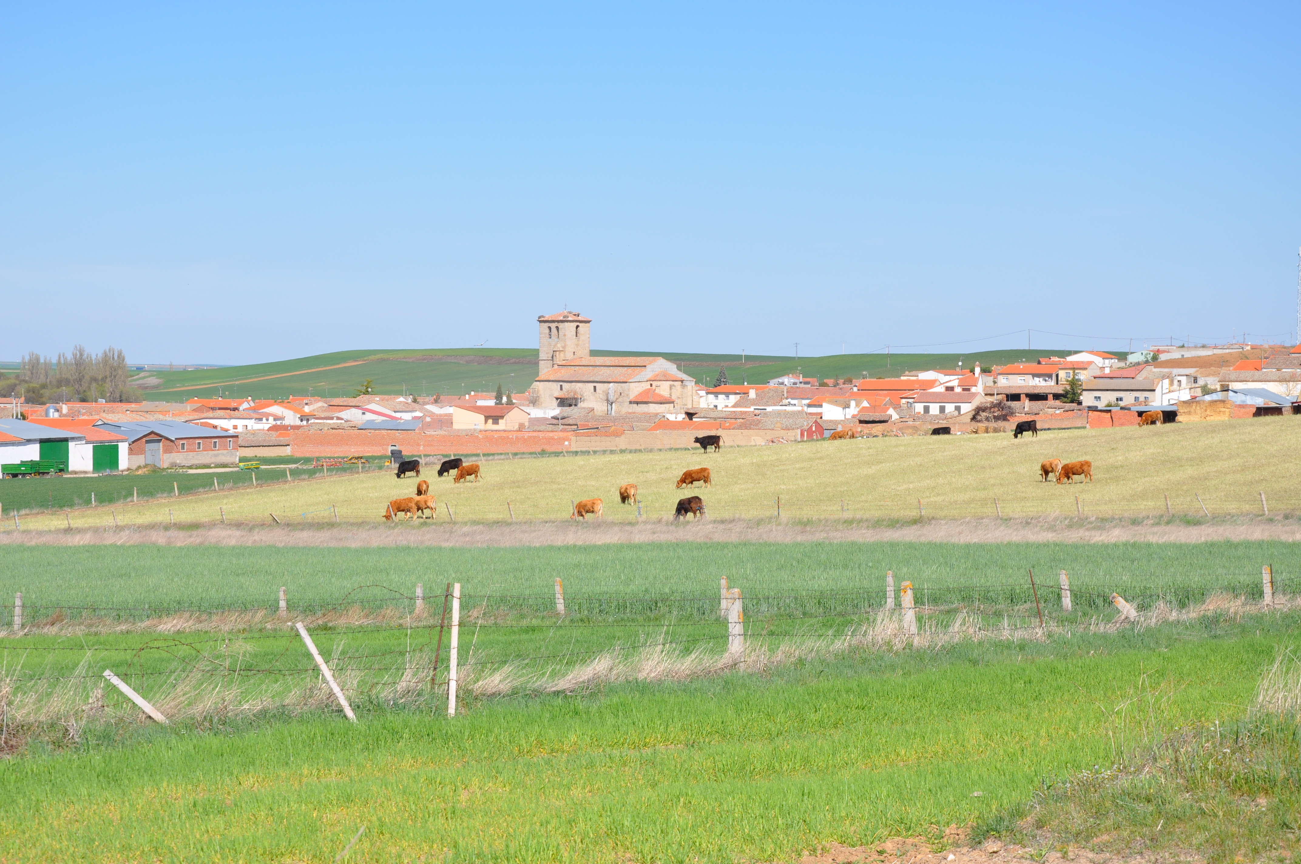 Overview of Mancera de Abajo, Salamanca, Spain.